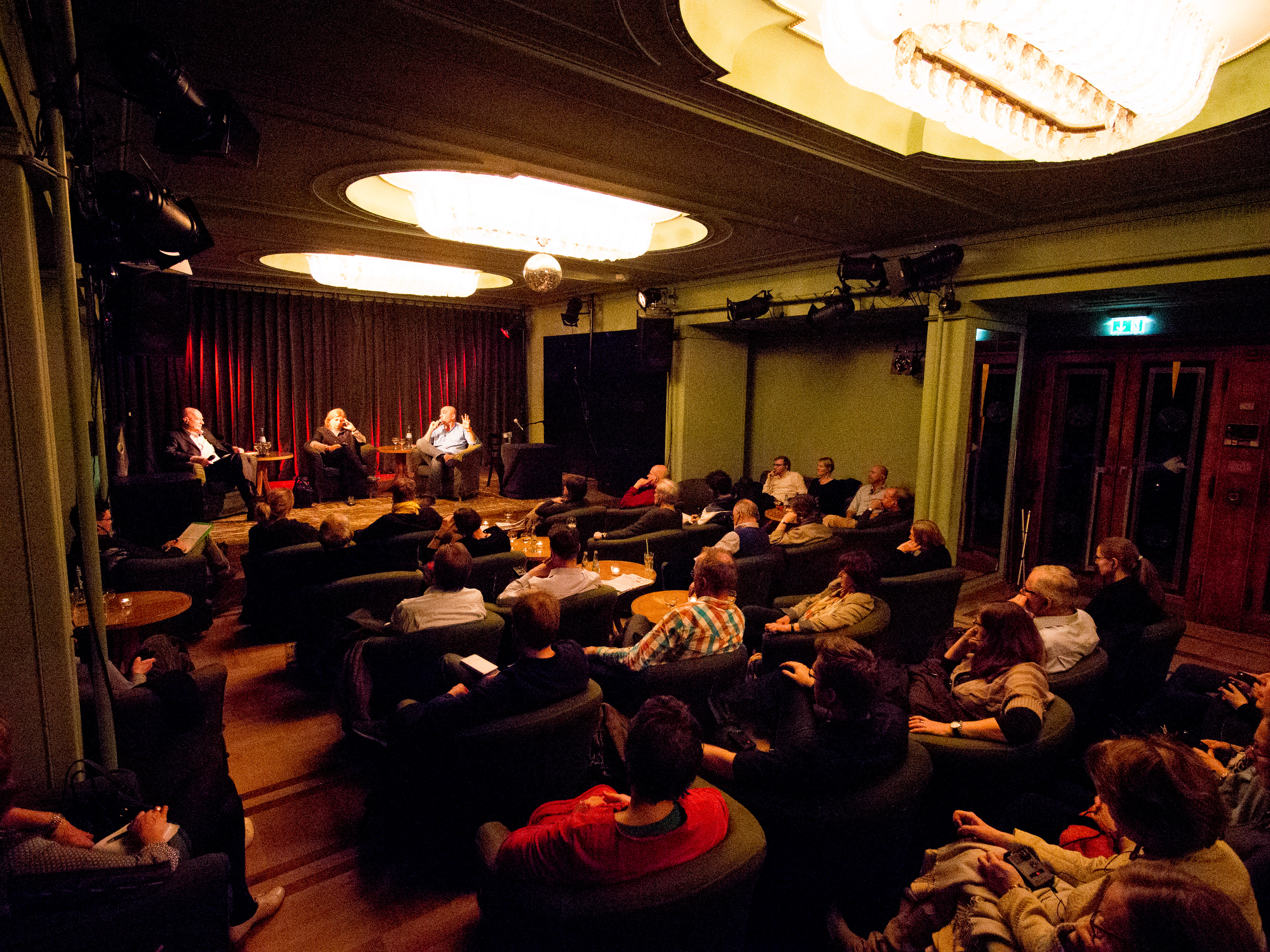 Foto